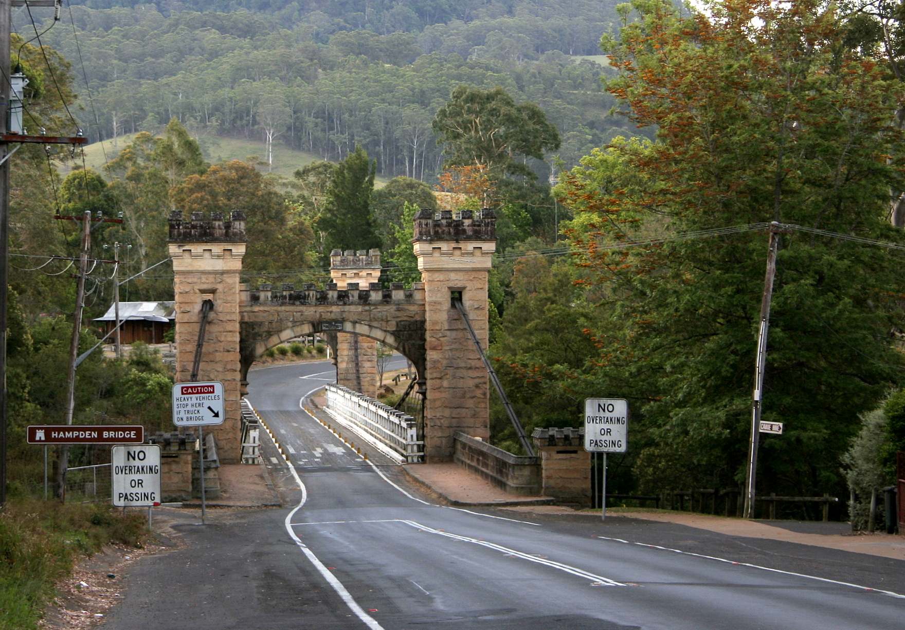 Hampton Bridge, Kangaroo Valley, NSW, Australia